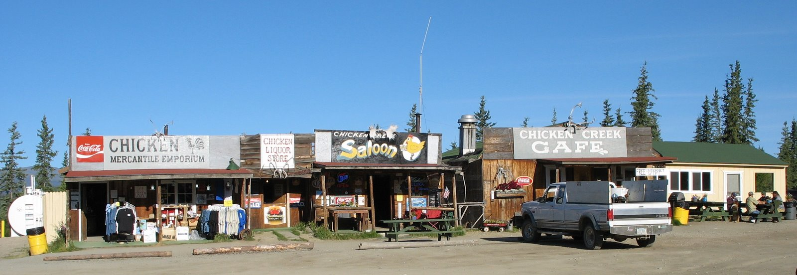 Downtown Chicken, Alaska Uncopyrighted photo taken on July 23, 2006.